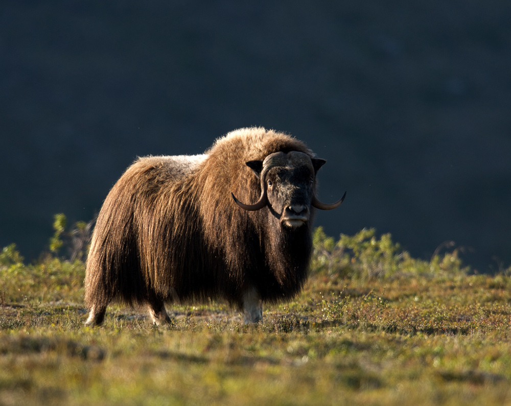 Golden Light Muskox